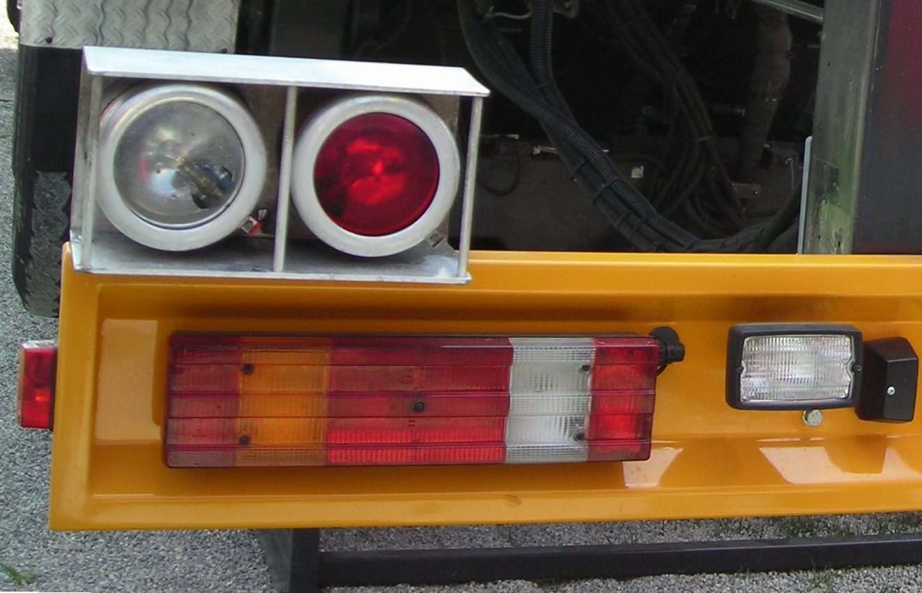 Wemo DC2631 road-rail vehicle (rear view) for the inspection of railway systems, based on a Mercedes Benz Actros 2031 (heavy sidecar). Manufacturer: Wemo, Eichenzell (Rhön), Exhibit at the International Trade Fair for Construction Machinery, Building Material Machines, Mining Machines, Construction Vehicles and Construction Equipment (bauma) in Munich 2007